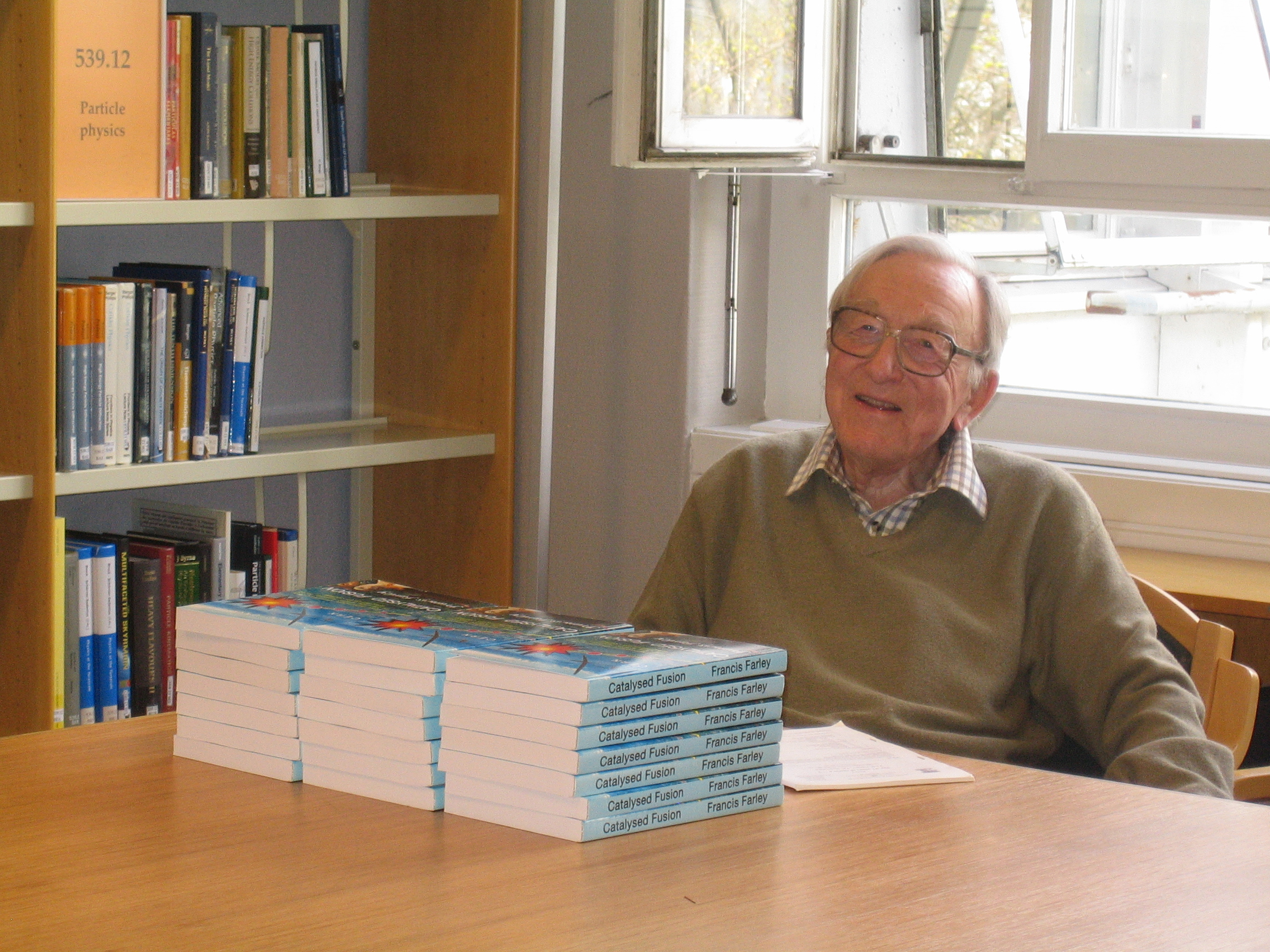 Francis Farley presenting his romantic novel, Catalysed Fusion, which is a "true-to-life fantasy woven around particle physics" set in 1980s Geneva – "the city where nations meet and particles collide". Farley presented the book in the program "Literature in Focus" 16th April 2013 in the CERN Library.